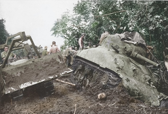 A Sherman tank trapped in the mud due to the quality of Talasea roads.